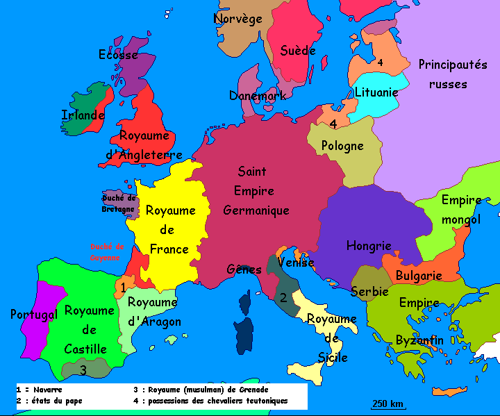 Map of Europa on the XIIIth century